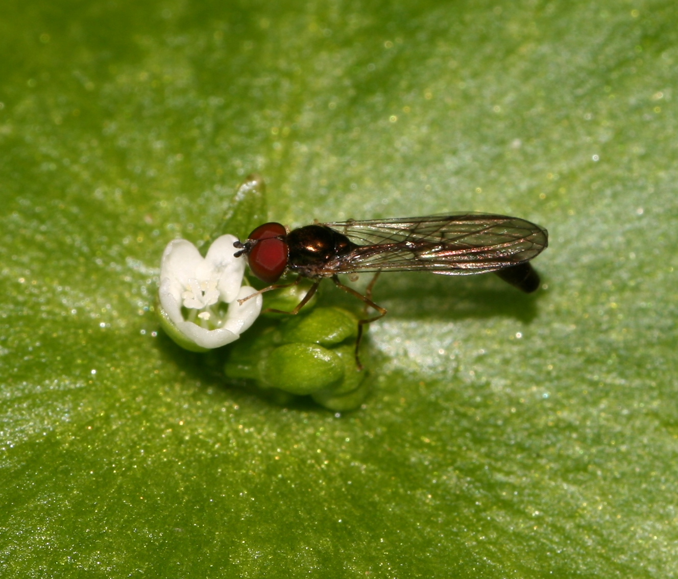 none yet